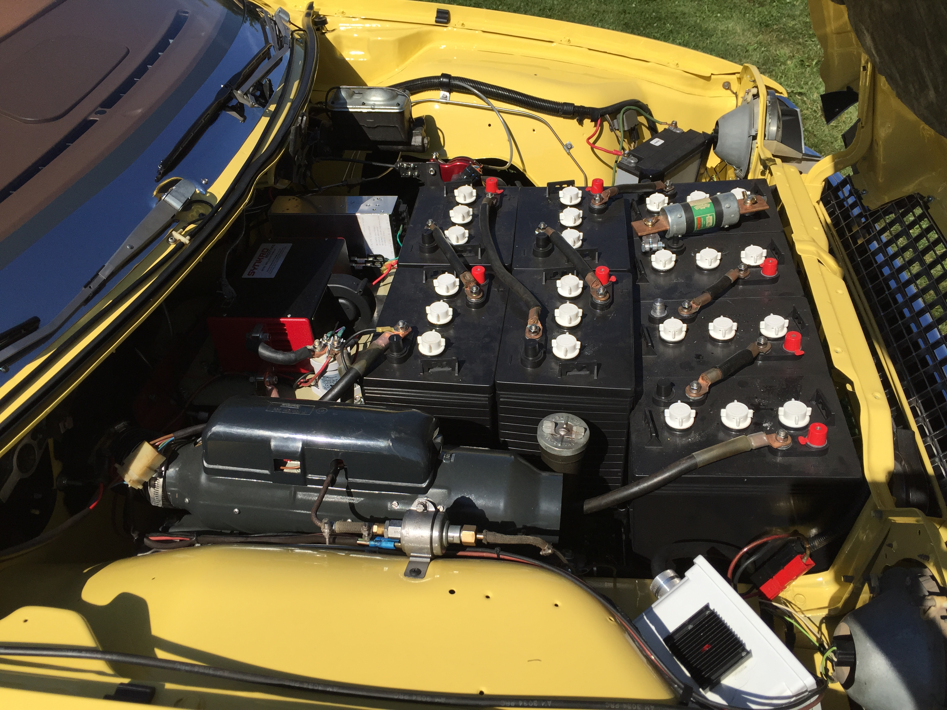 Electric Vehicle Associates (EVA) 1978 "Change of Pace" station wagon. A converted AMC (American Motors Corporation) Pacer two-door wagon finished in yellow with standard bench seat interior. Power comes from twenty batteries housed in two-packs (front and rear), with a 26 kW (at 3,000 rpm) electric motor mated to a three-speed automatic transmission. Picture taken at the American Motors Owners Association (AMO) annual convention that was held July 2015 near Cleveland, Ohio.